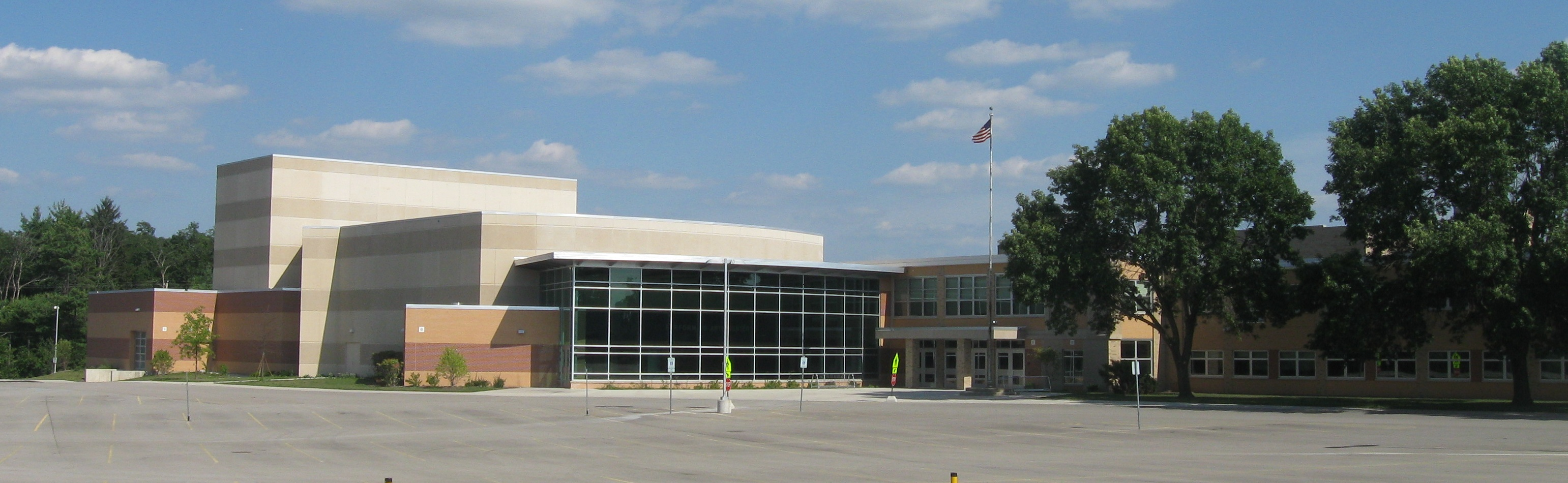 New Berlin West High School, in New Berlin, Wisconsin, as seen from the northwest.